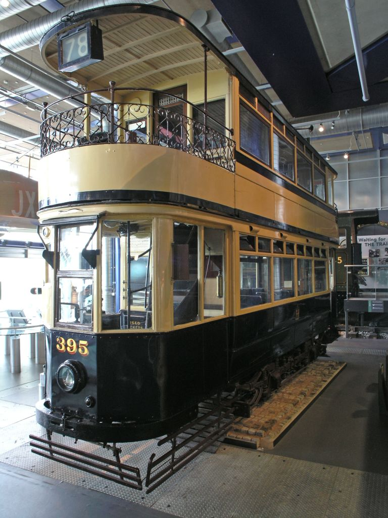 Editing Undertaken: Levels, Unsharp Mask, Shadows/ Highlights